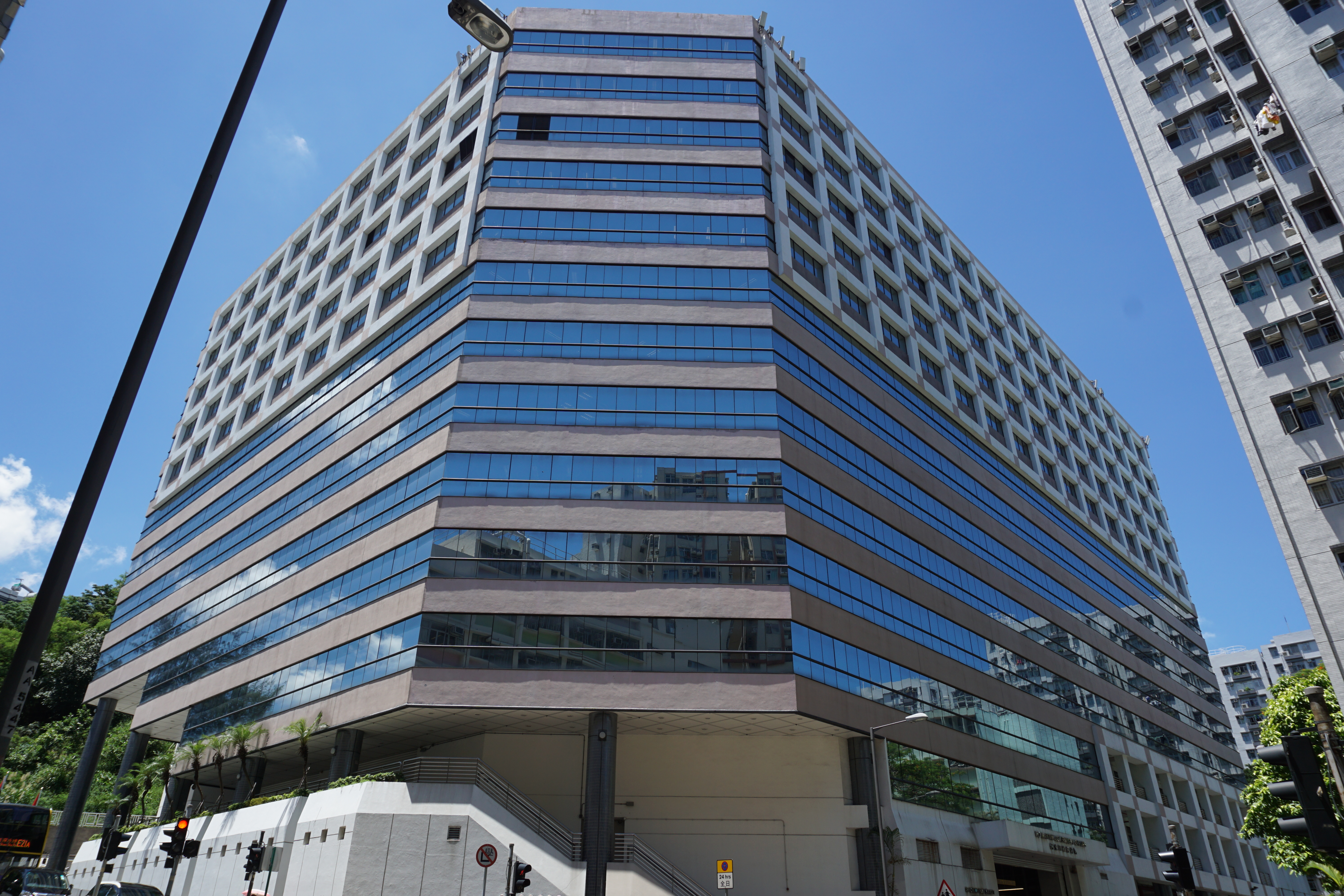 Government Offices in Ho Man Tin, Hong Kong.